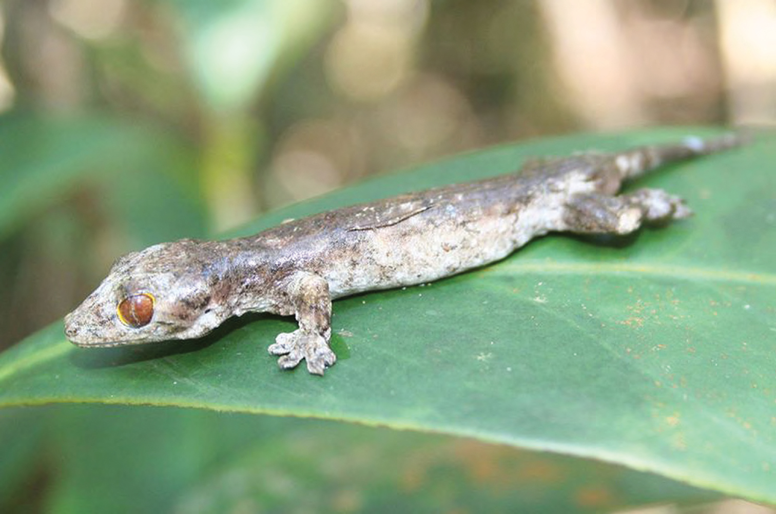 Luperosaurus cf. kubli (specimen not collected) from Palanan. Photo: MVW.